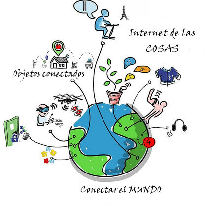 Draw that represents the Internet of Things